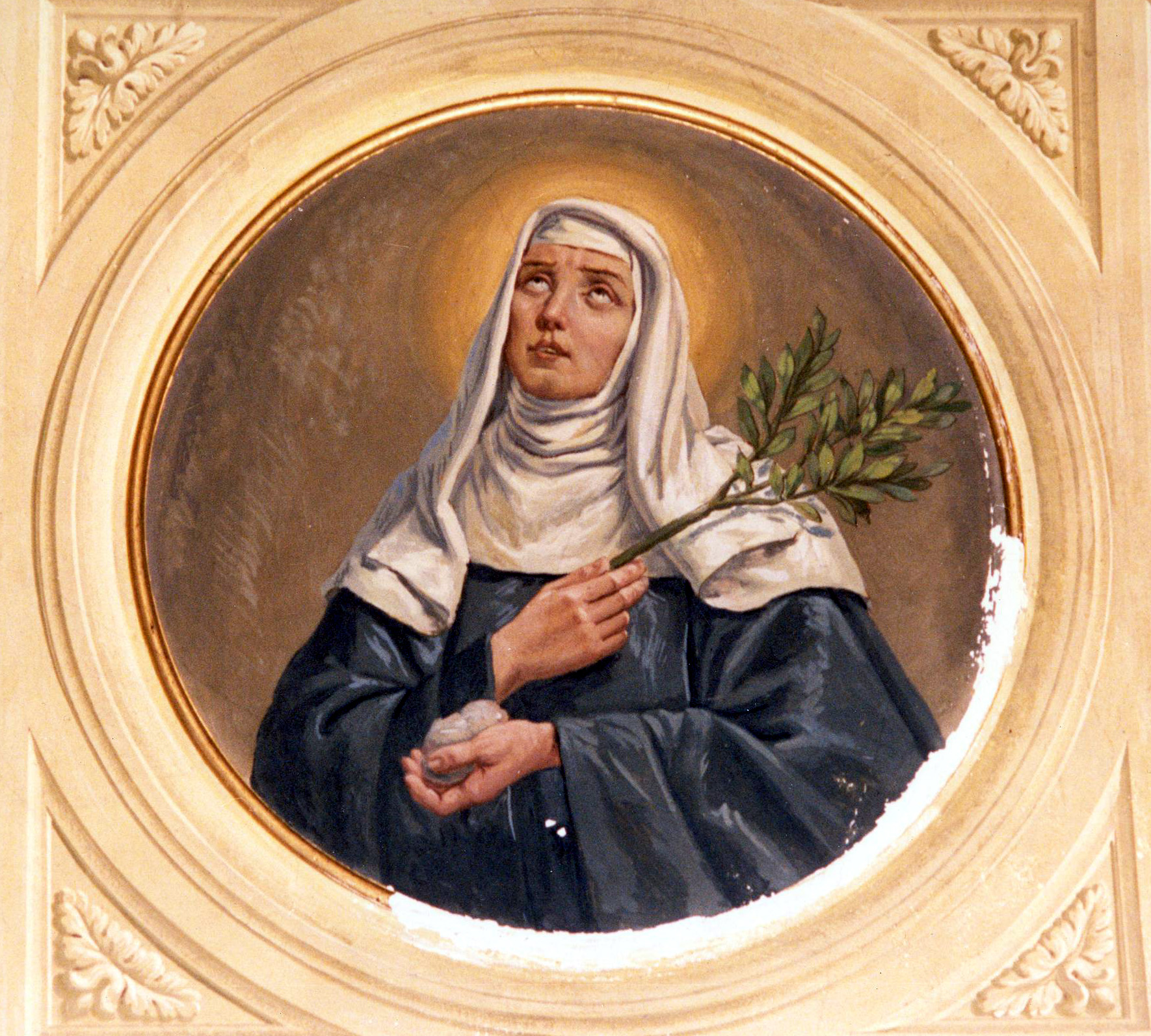 Church of Turago Bordone: Beata Veronica. Fresco by Luigi Migliavacca